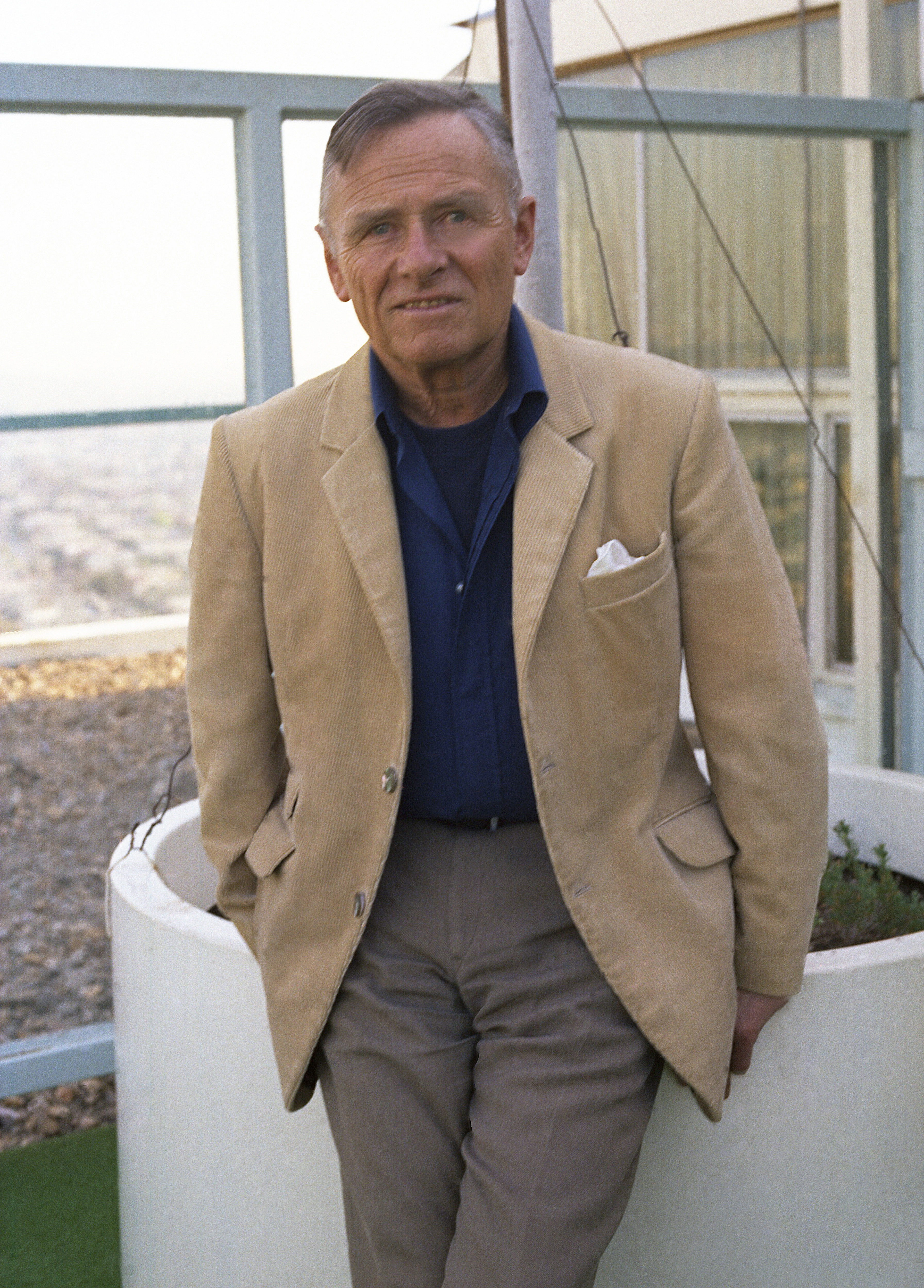 Christopher Isherwood on roof of Hyatt Hotel Los Angeles